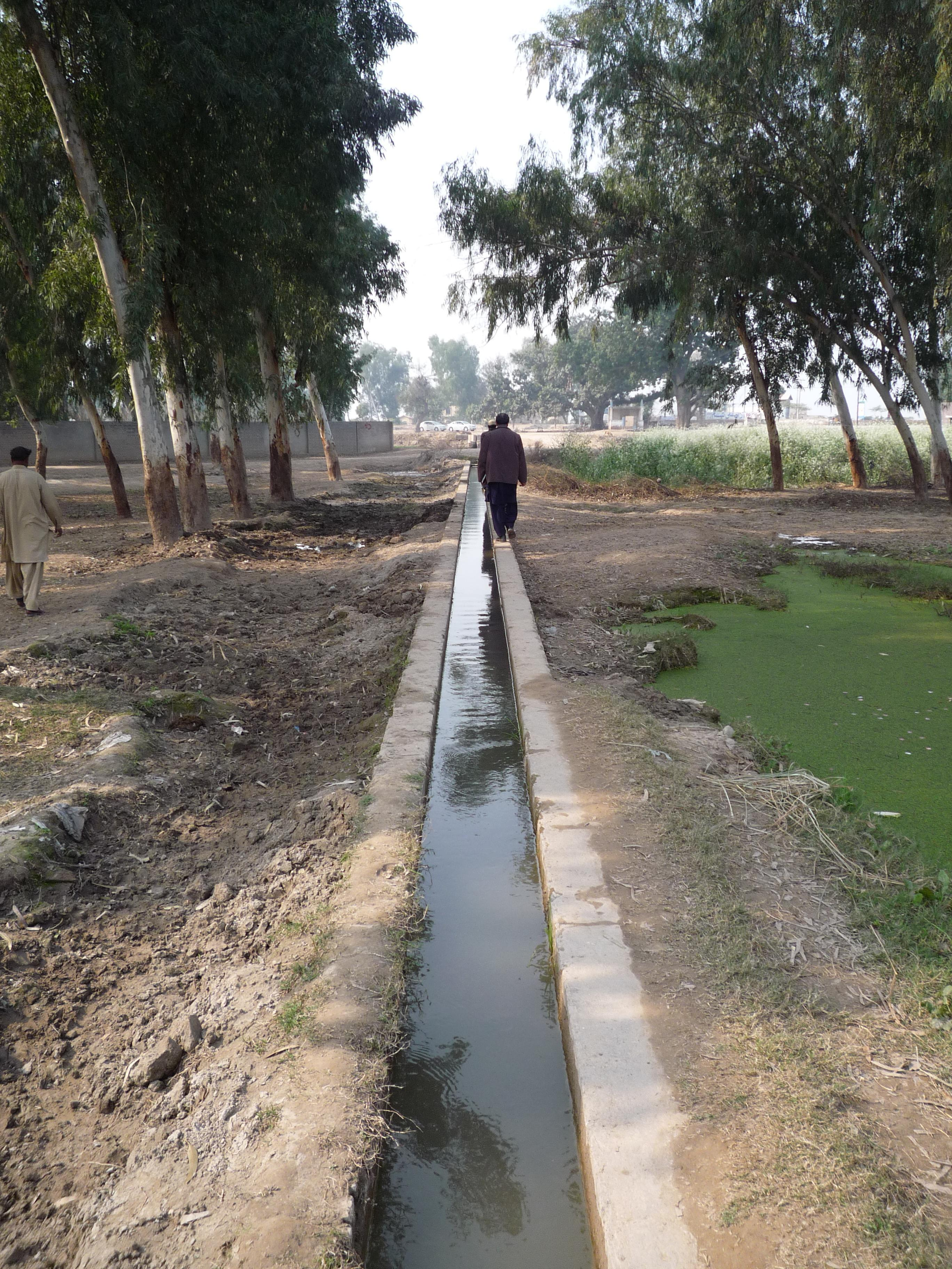 January 28, 2013 - February 1, 2013